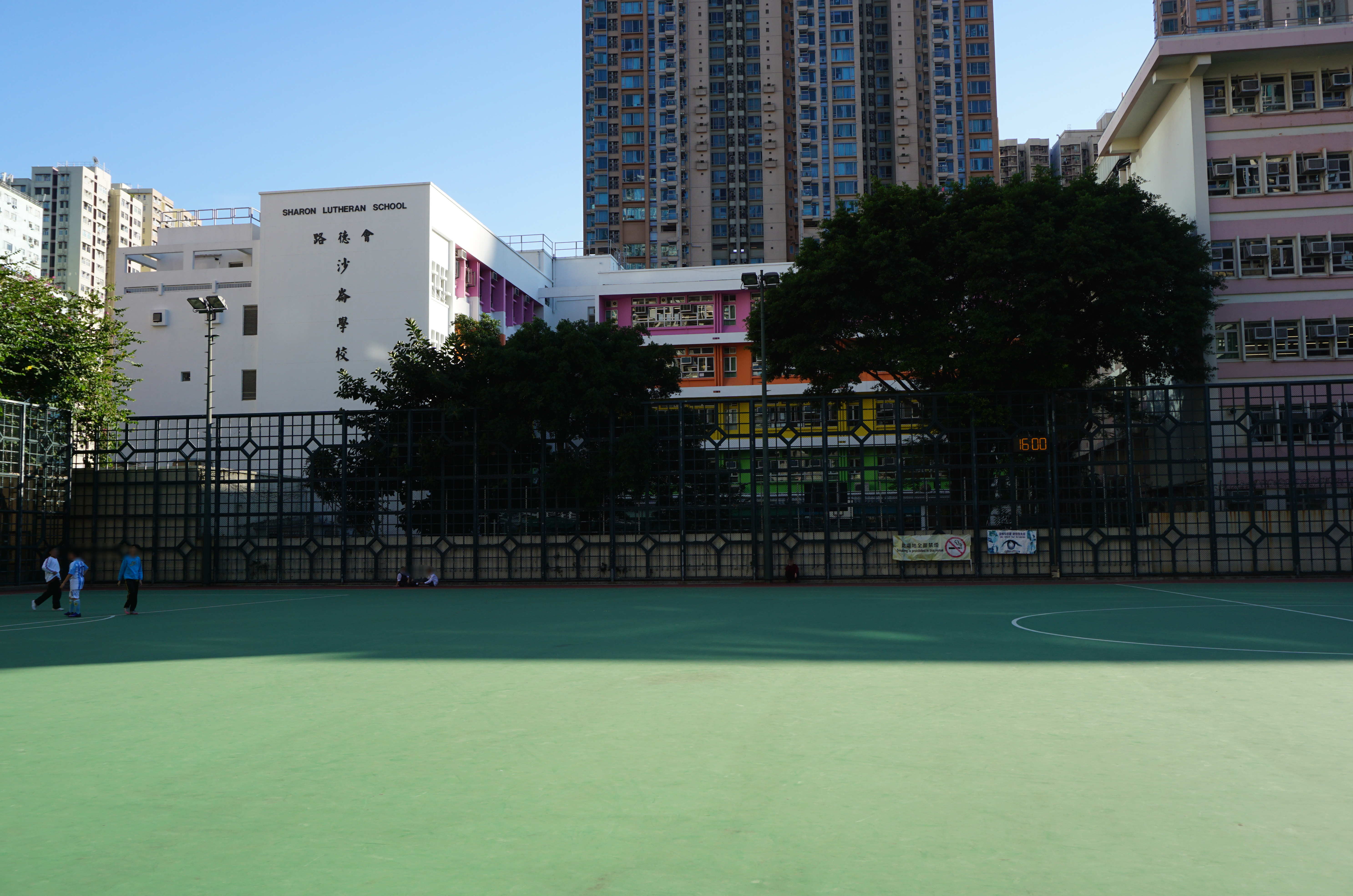 Sharon Lutheran School in Tai Kok Tsui, Hong Kong.